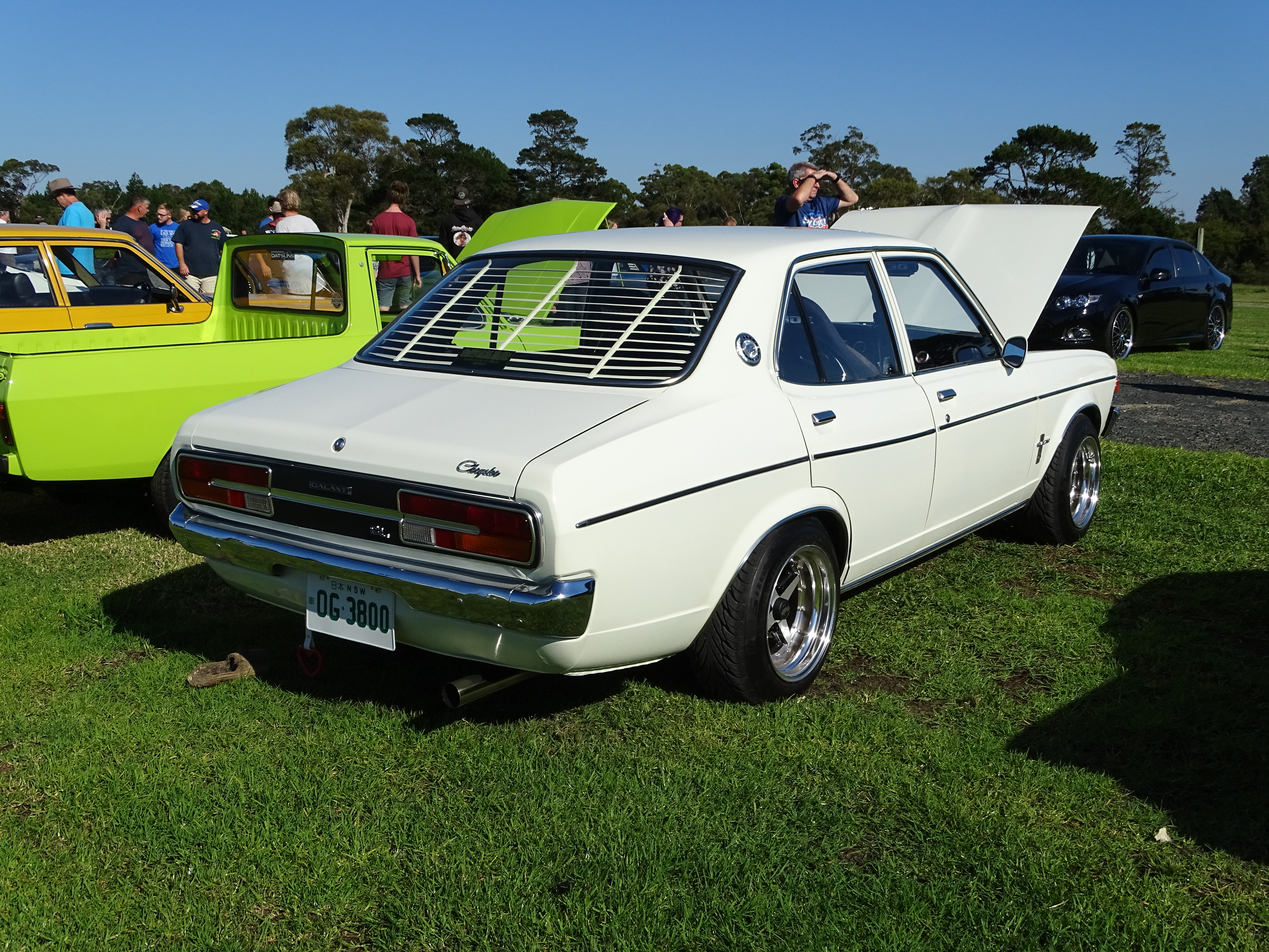 Has been modified with a Holden 3.8L V6 fitted.